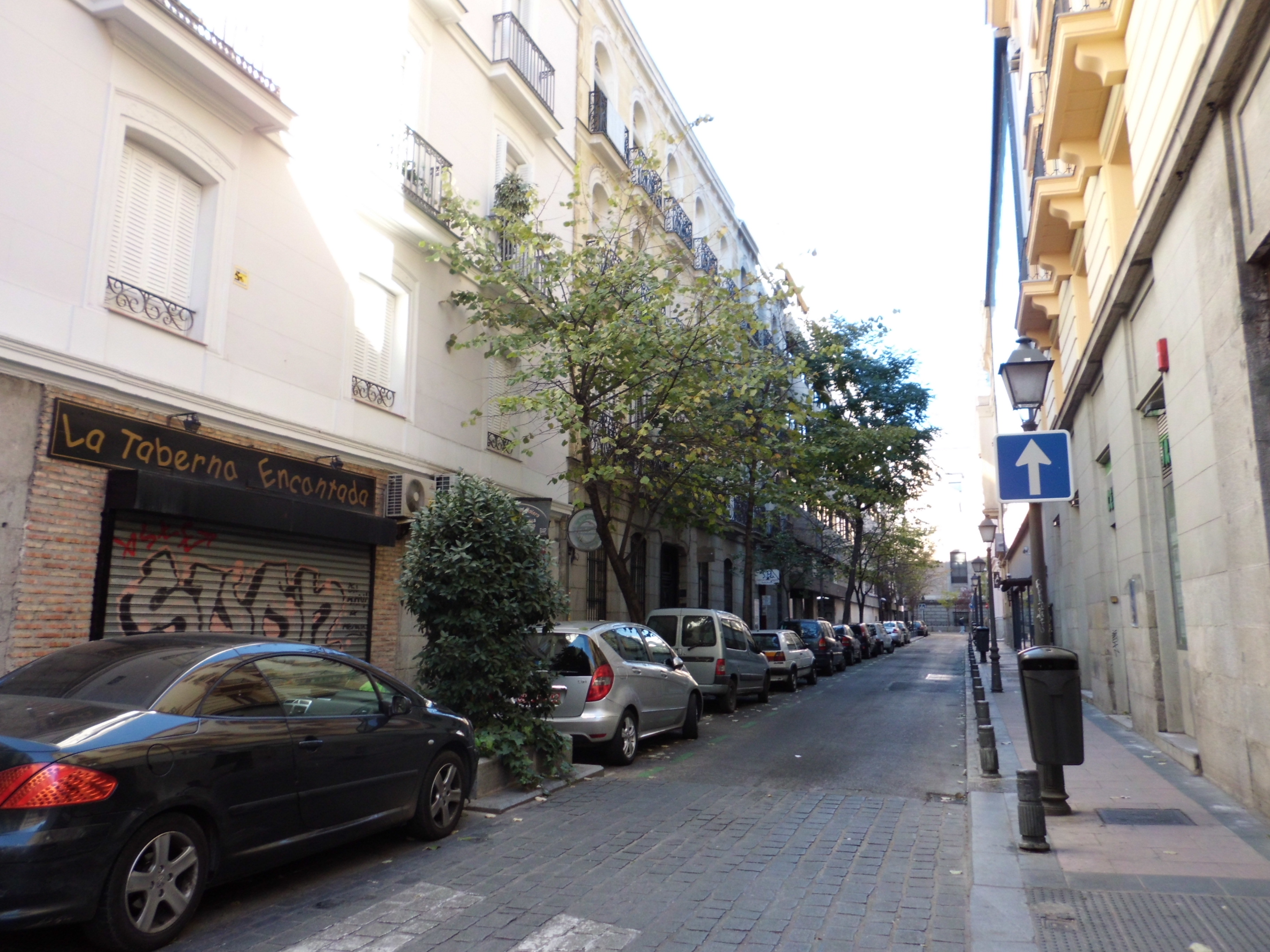 Madrid, Spain, Calle del Cid in the neighborhood of Recoletos, district of Salamanca. It goes from Calle de Recoletos to Calle de Villanueva.